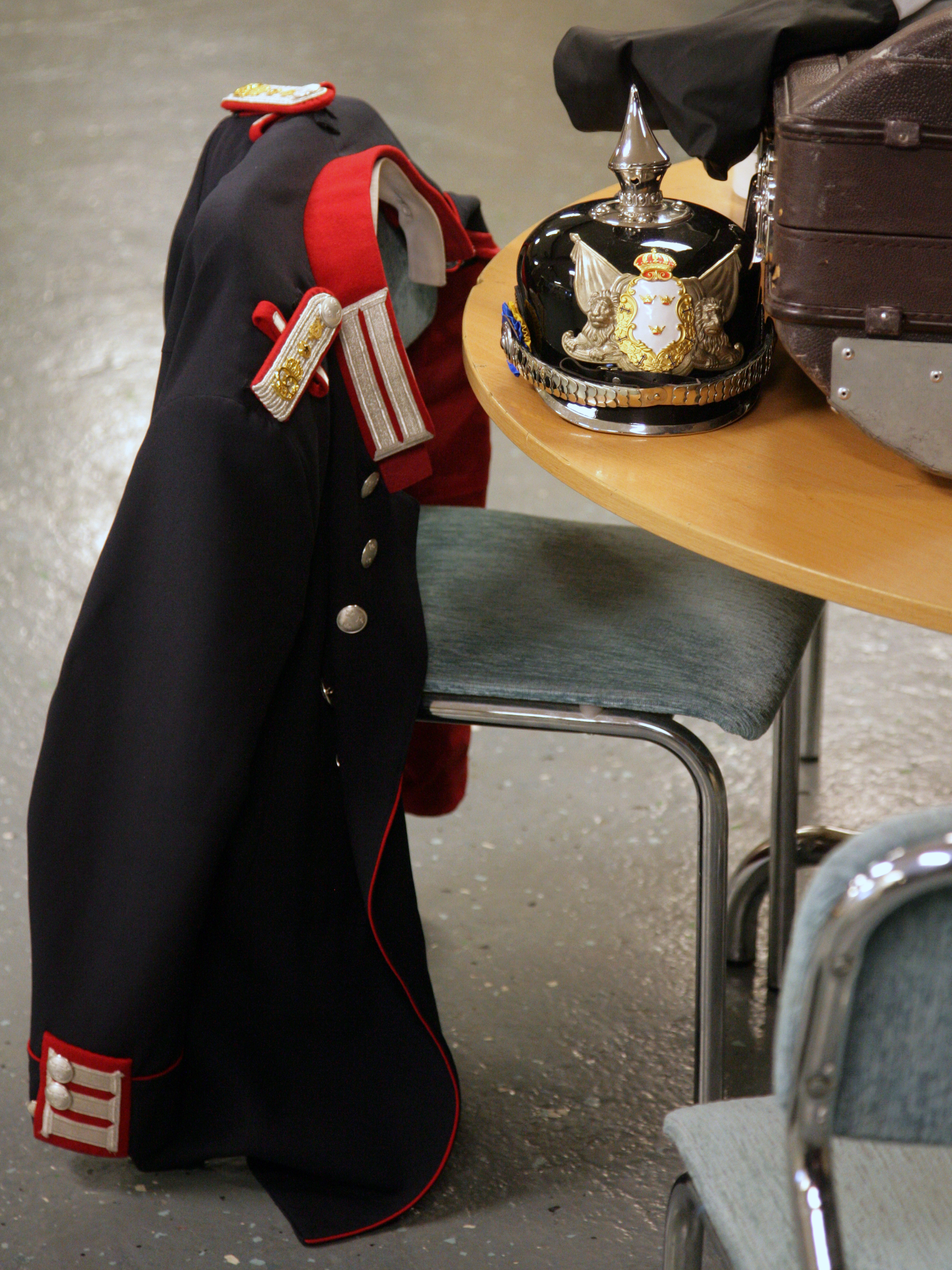 Uniform 1885 Pattern WO 1